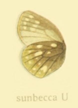 Underside of Coenonympha sunbecca